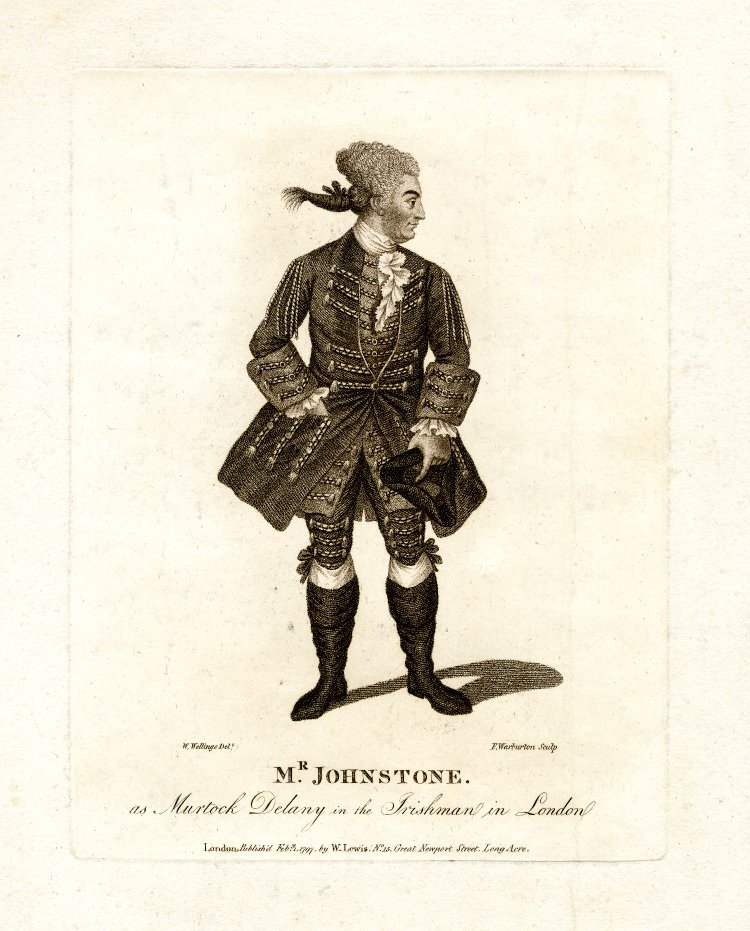 Portrait of John Henry Johnstone (1749–1828), Irish actor, in character as Murdock Delany in The Irishman in London by William Macready the elder.